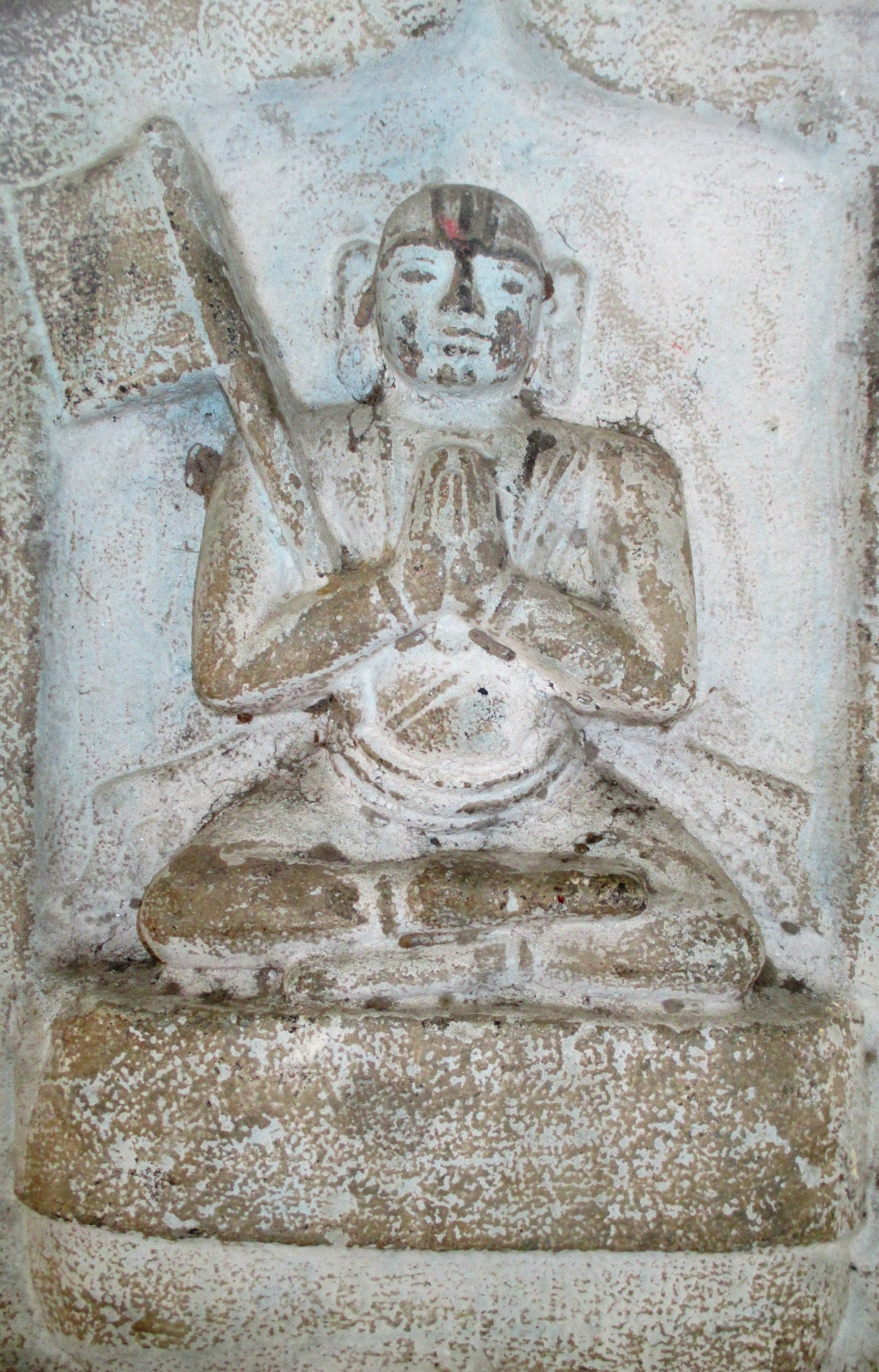 Pavalavannam Temple